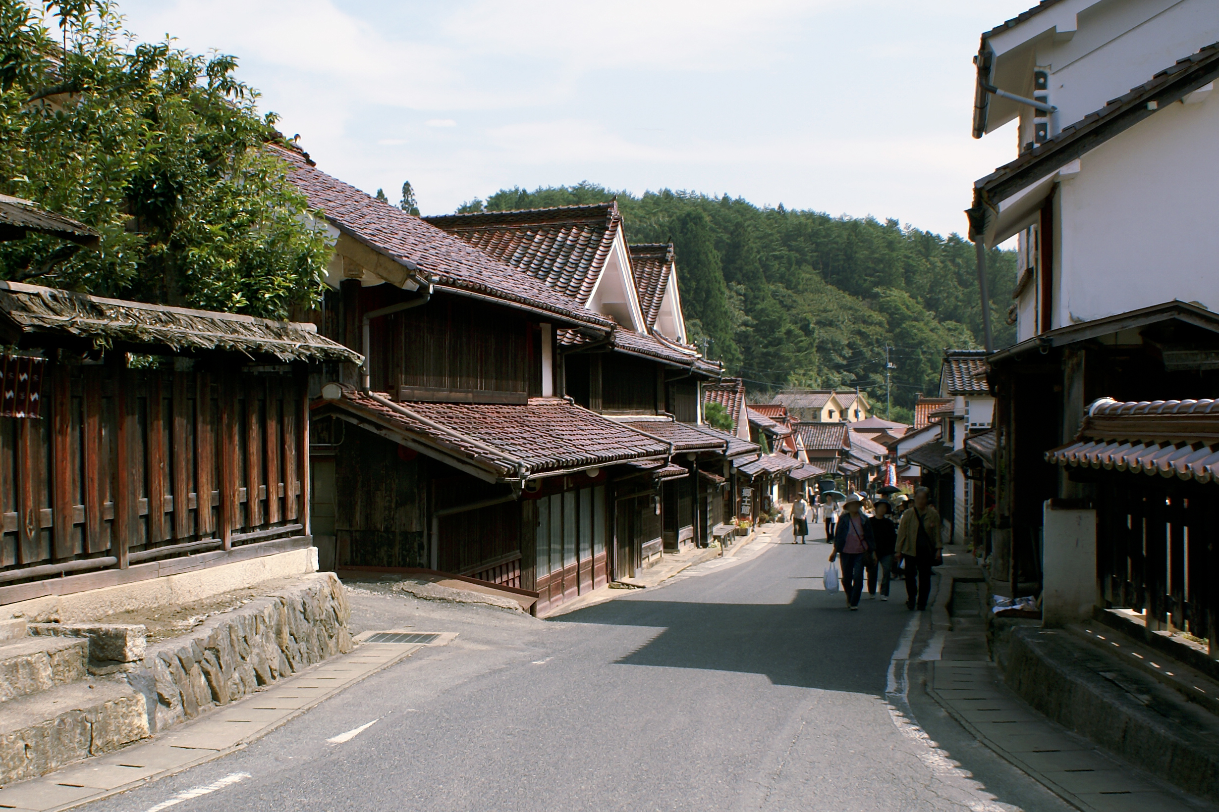 Fukiya in Takahashi, Okayama prefecture, Japan.